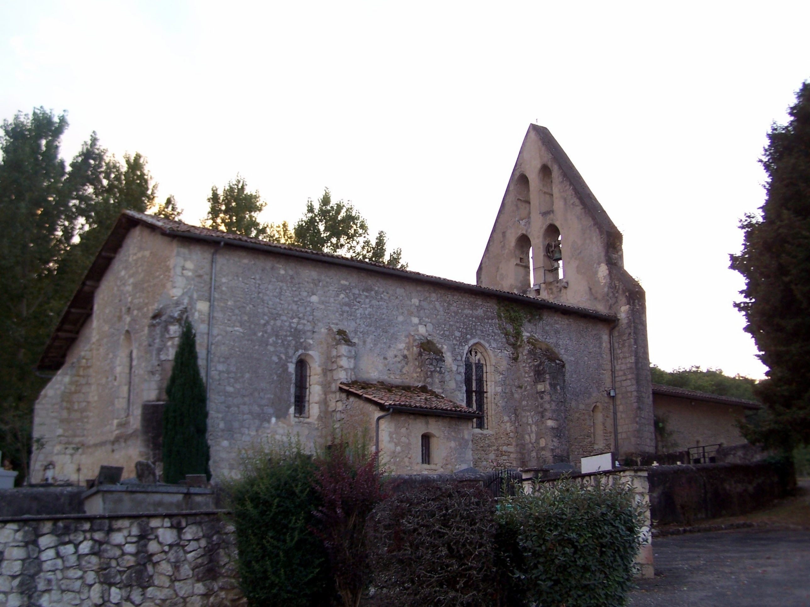 Saint Martin church of ;Poussignac (Lot-et-Garonne, France) .